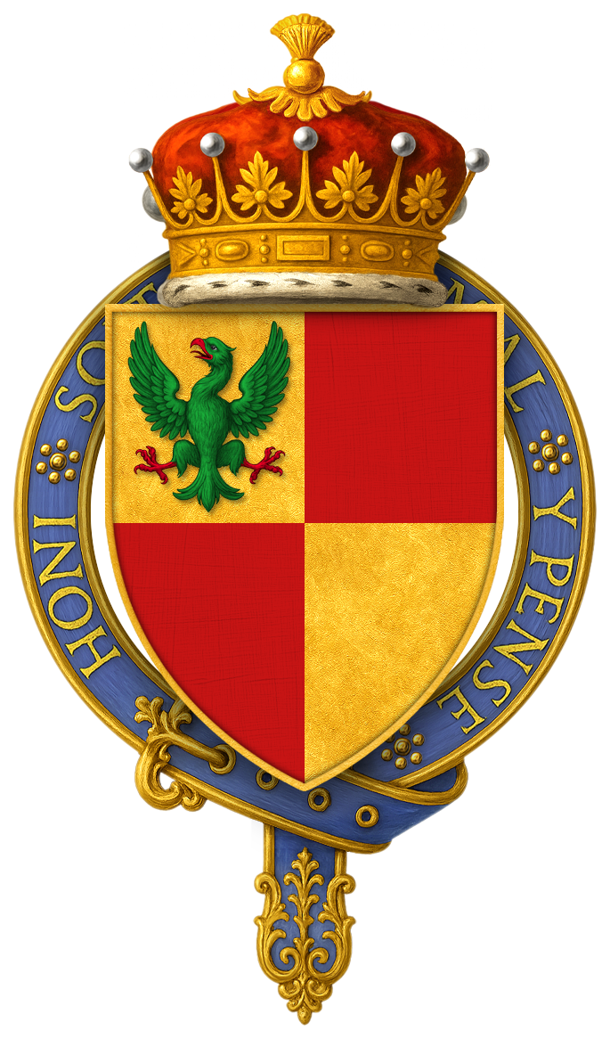 Coat of Arms of Frank Pakenham, 7th Earl of Longford, KG, PC